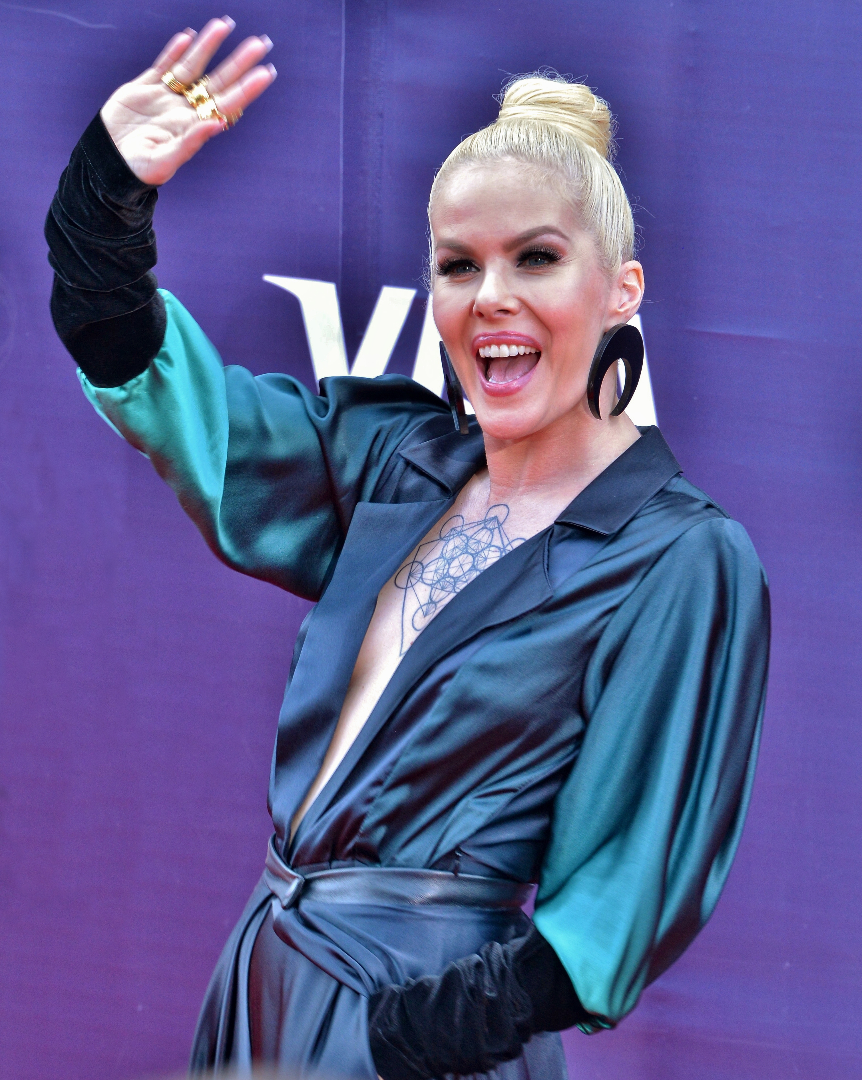 Islandian singer Svala Björgvinsdóttir on the Red Carpet Ceremony of the Eurovision 2017 Song Contest in Kyiv, Ukraine